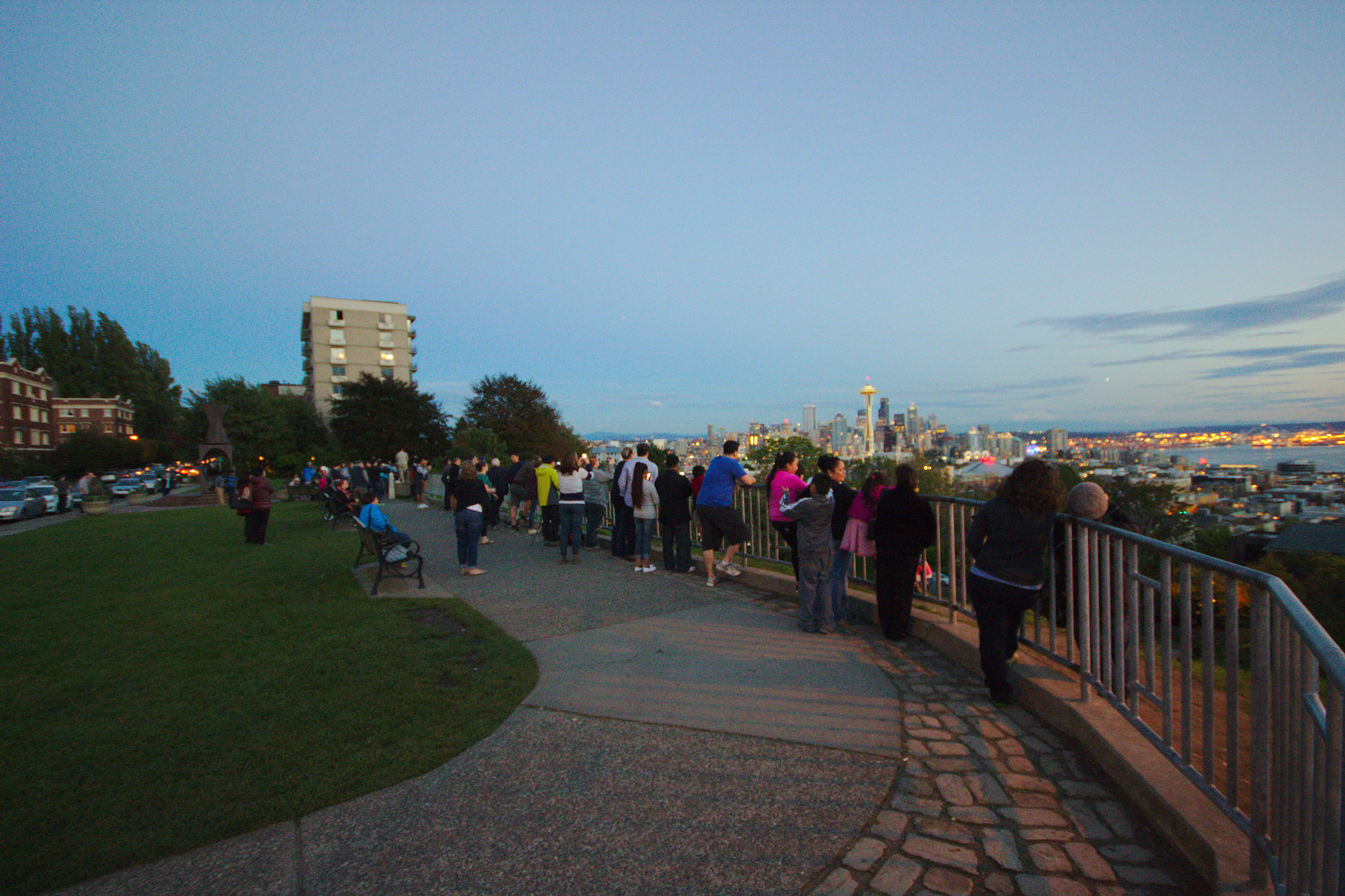 Kerry Park in Seattle, just after sunset on a clear autumn day, filled with people taking photos of the scenic view of downtown Seattle and Mt. Rainier.